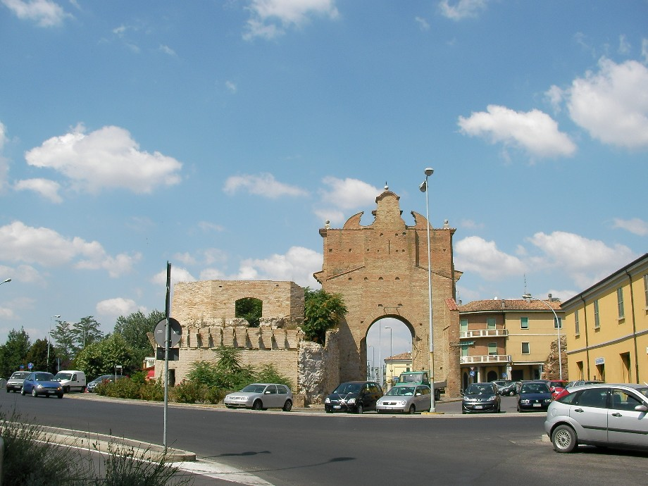 Sight of Porta Schiavonia